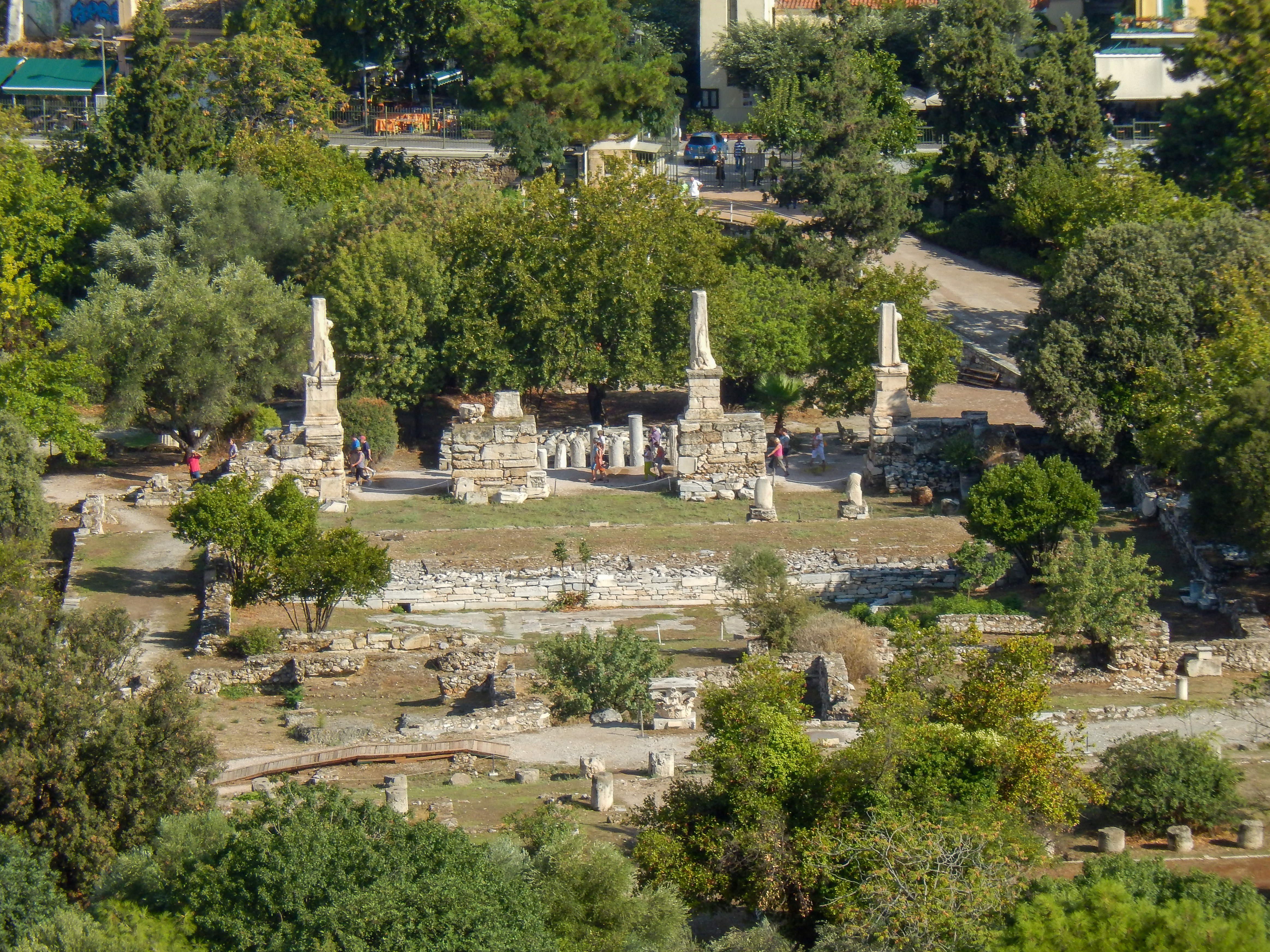 Odeon of Agrippa, view from Areopagus